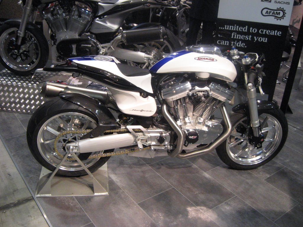 Wakan 100 Roadster motorcycle.